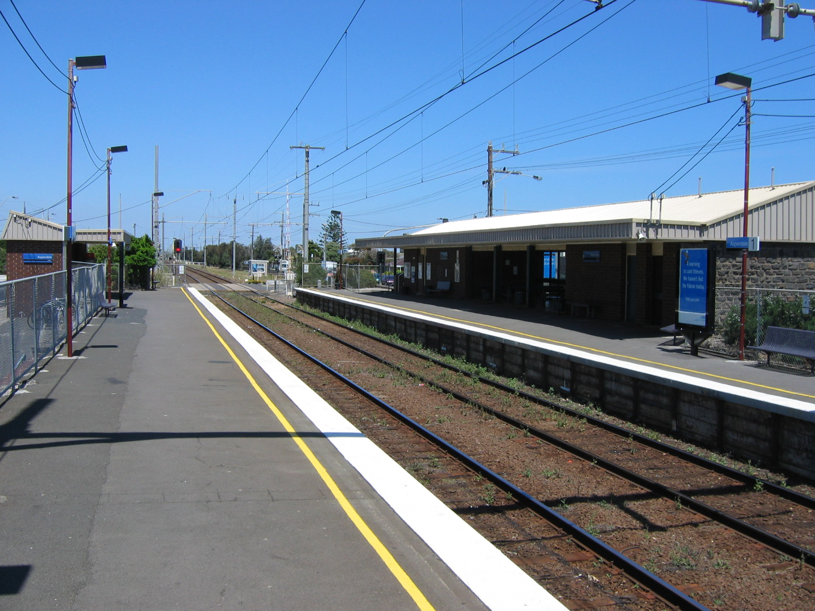 Aspendale station (Frankston line), Melbourne, Victoria.